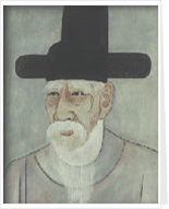 Korea-Portrait of Heo Mok-Joseon